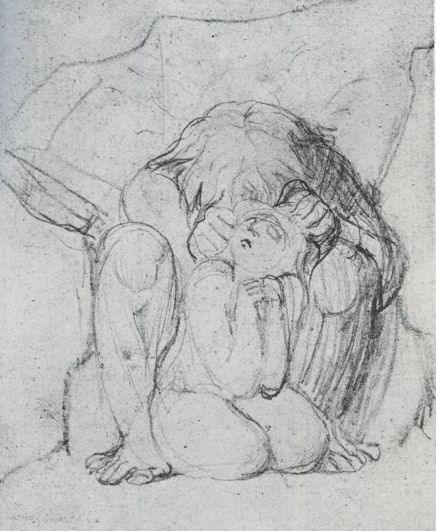 URISEN and his Emanation AHANIA. A pencil drawing by William Blake was used as a study for color-printed frontispiece of the illuminated book THE BOOK OF AHANIA, 1795, now in the National Gallery, Washington, D. C.